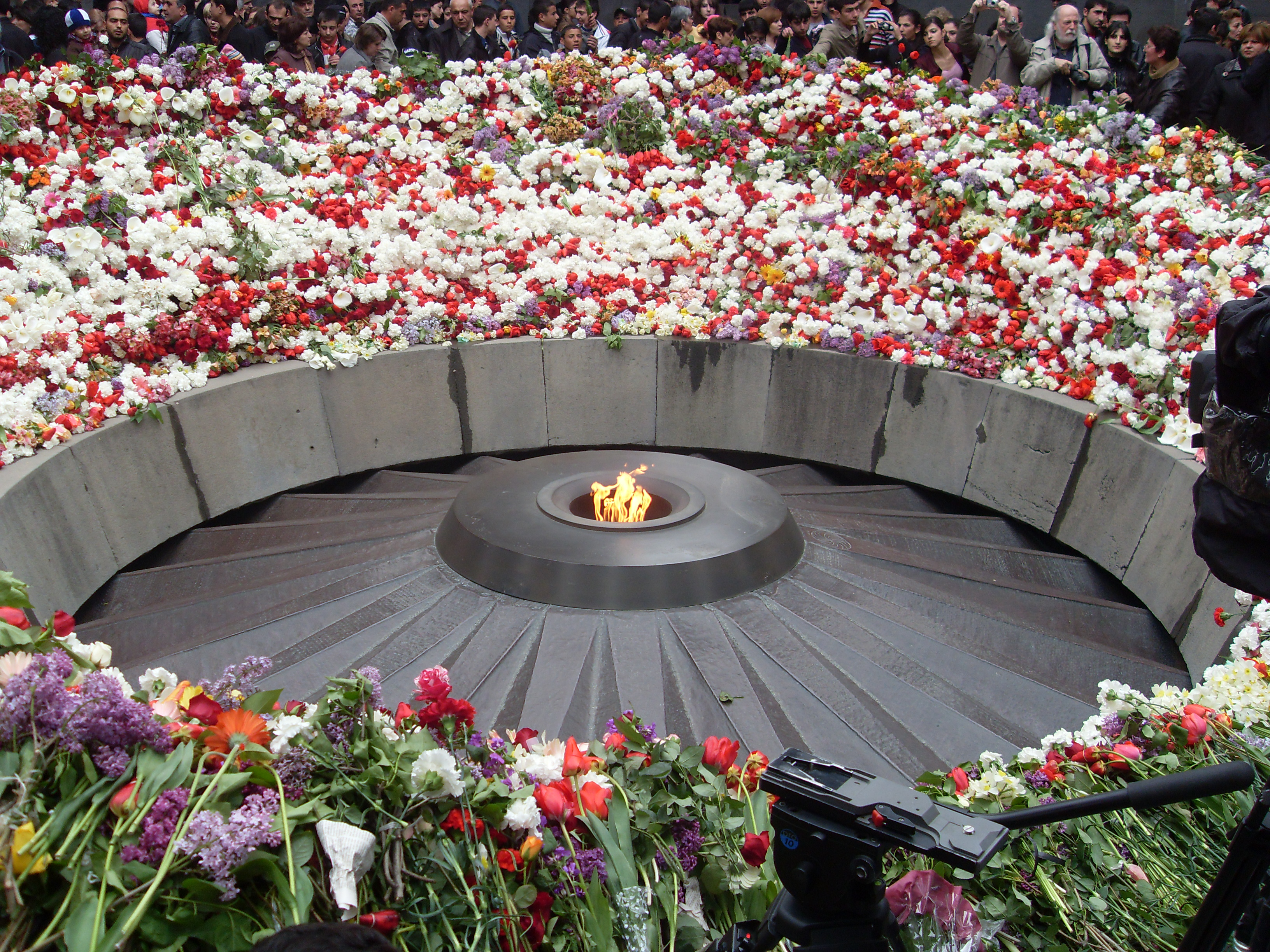 Tsitsernakaberd, memorial dedicated to the victims of the Armenian Genocide, Yerevan, 1967 6/106